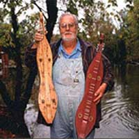 Appalachian dulcimer Source: Library of Congress